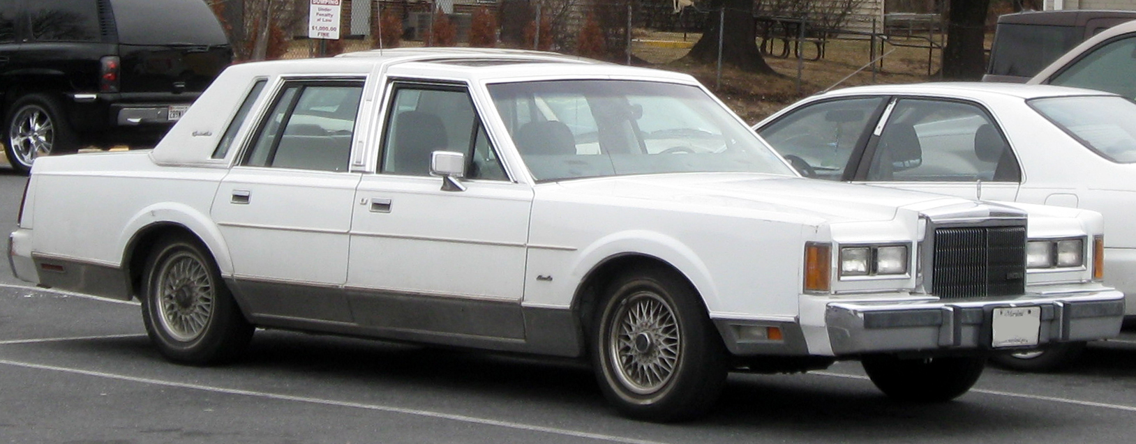 1989 Lincoln Town Car photographed in Chillum, Maryland, USA.